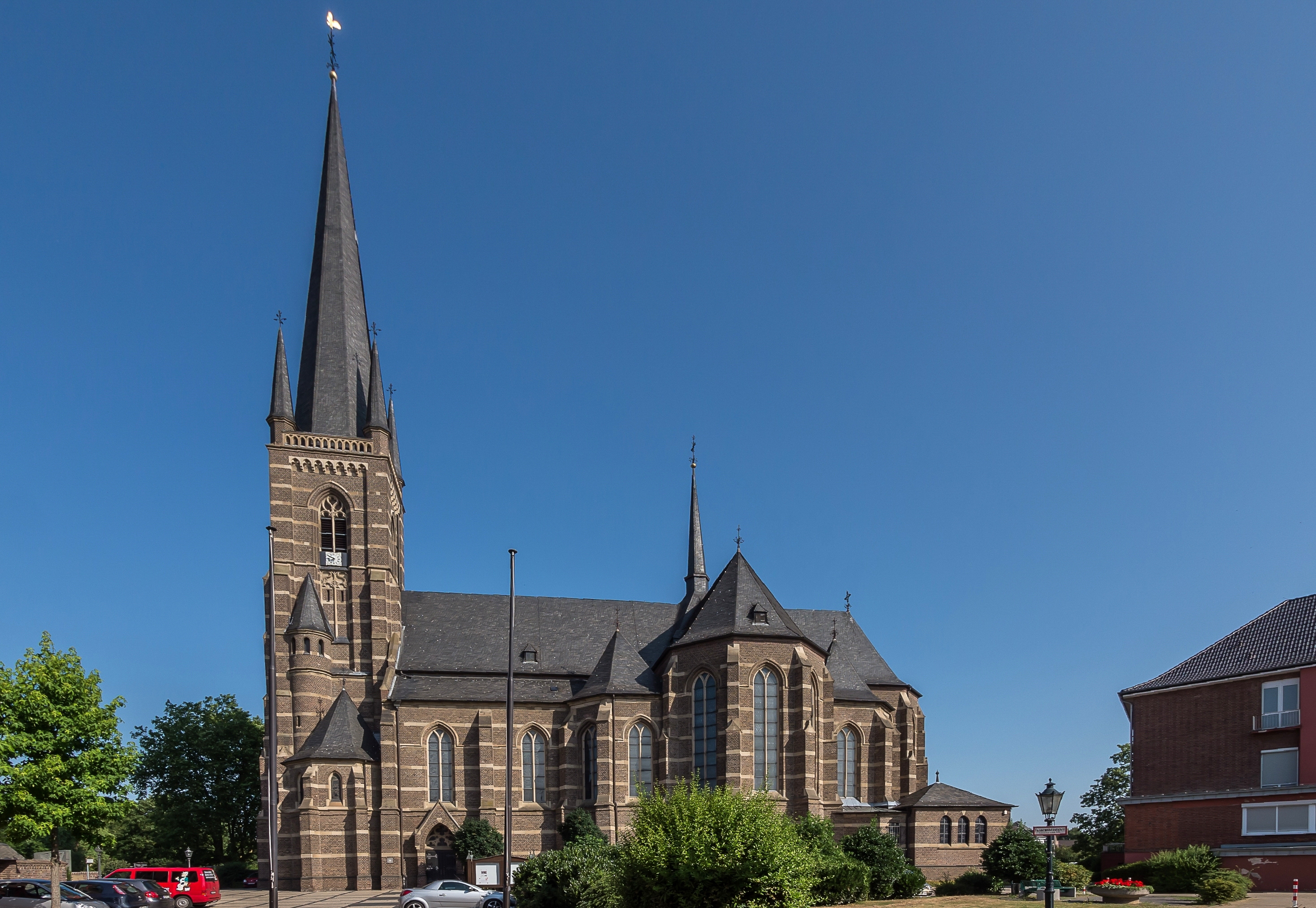 Bedburg - Marktplatz 4 - 5 Sankt-Lambertus-KircheThis is a photograph of an architectural monument., no. 71